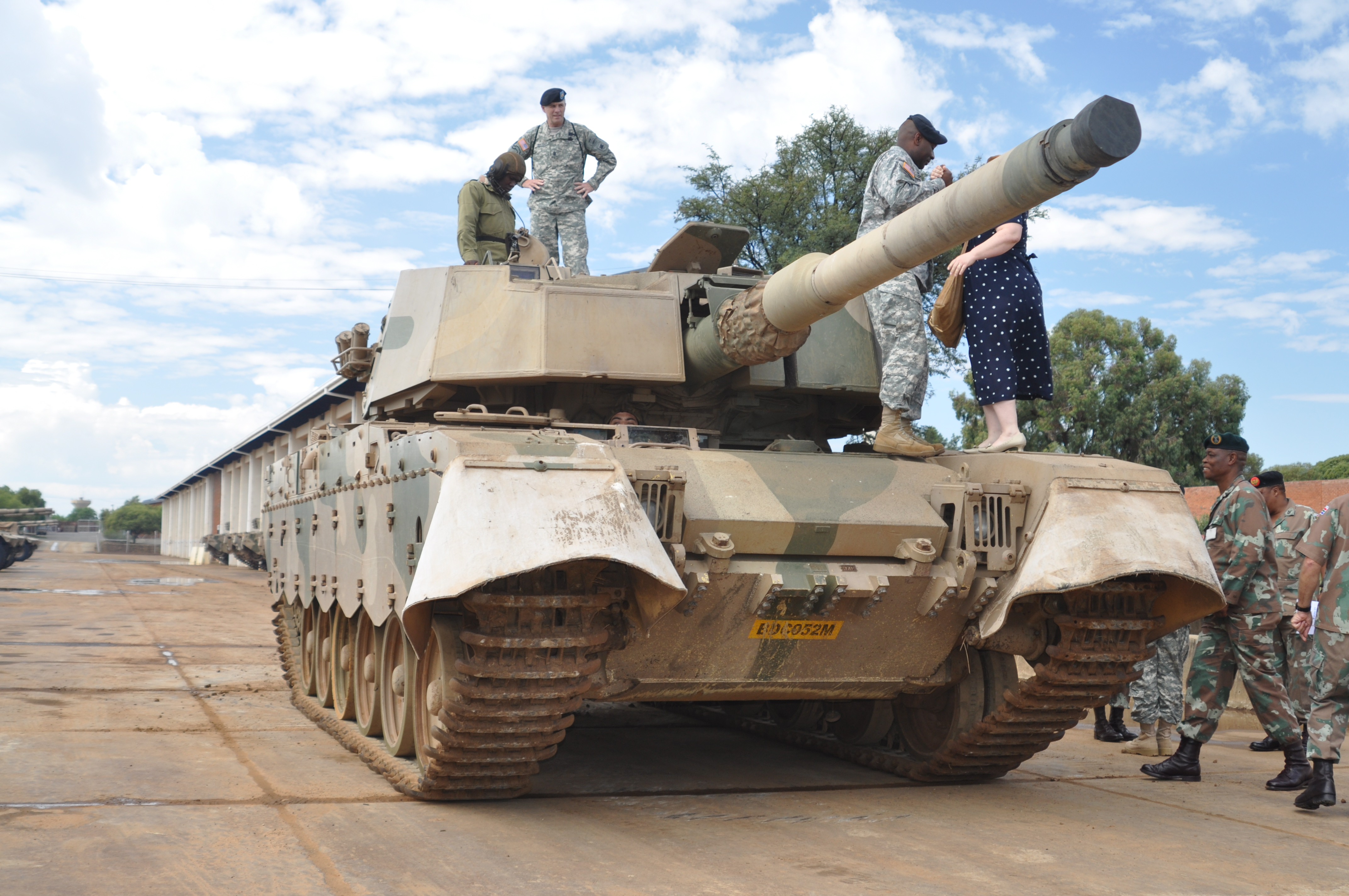 U.S. Army Africa (USARAF) Command Sergeant Major Hu Rhodes and delegation attended an NCO Senior Leader Visit in South Africa to meet with the South African Land Forces Senior Chief Warrant Officer (SCWO) Mothusi Victor Kgaladi and South African Army Staff recently. Soldiers gathered together to enhance senior NCO relationships between Active and Reserve Senior Chief Warrant Officers and included tours of the Armor, Airborne and Artillery regiments.